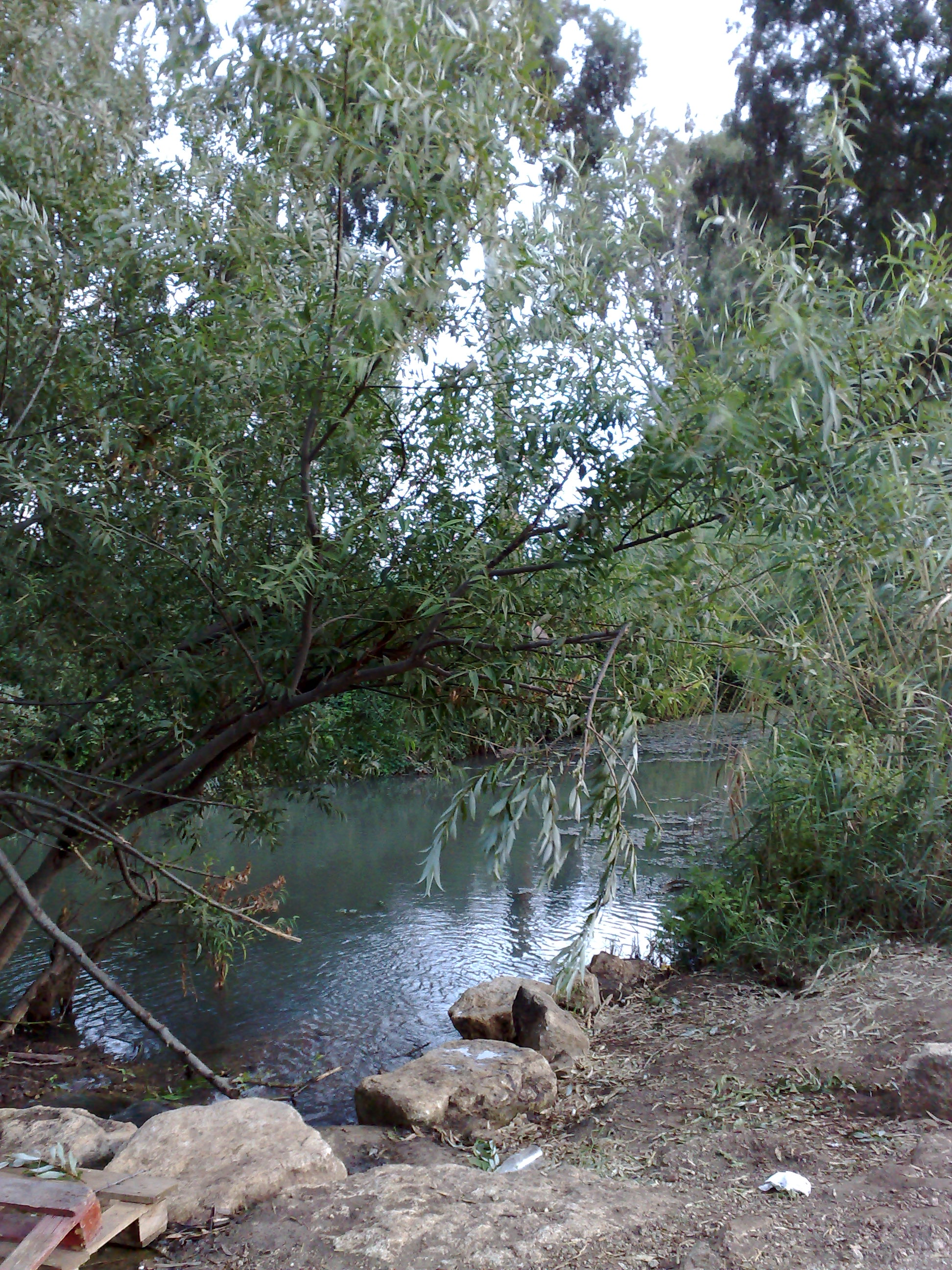 מקורות הירקון ליד המושב